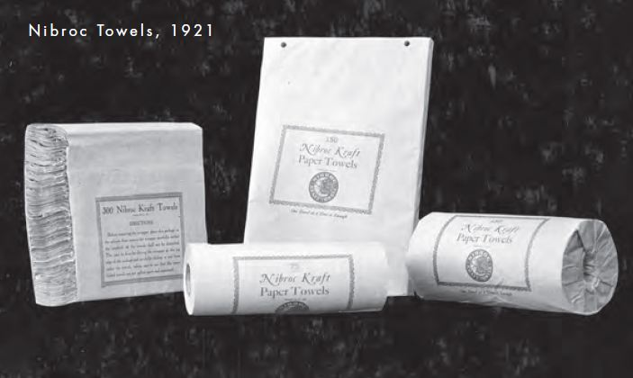 Nibroc Paper Towels Berlin, New Hampshire 1921